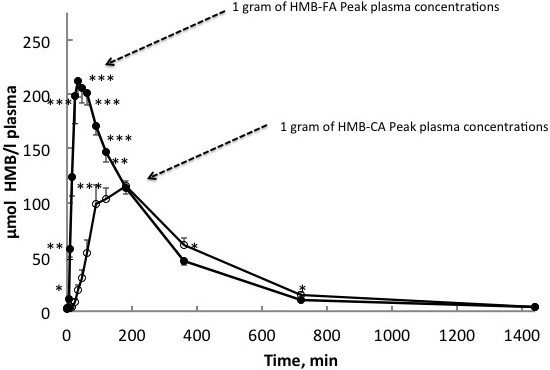 Absorbtion kinetics (content in blood plasma levels over time) from oral use of 1 gram of calcium vs free acid forms of beta-hydroxy beta-methylbutyrate (HMB).